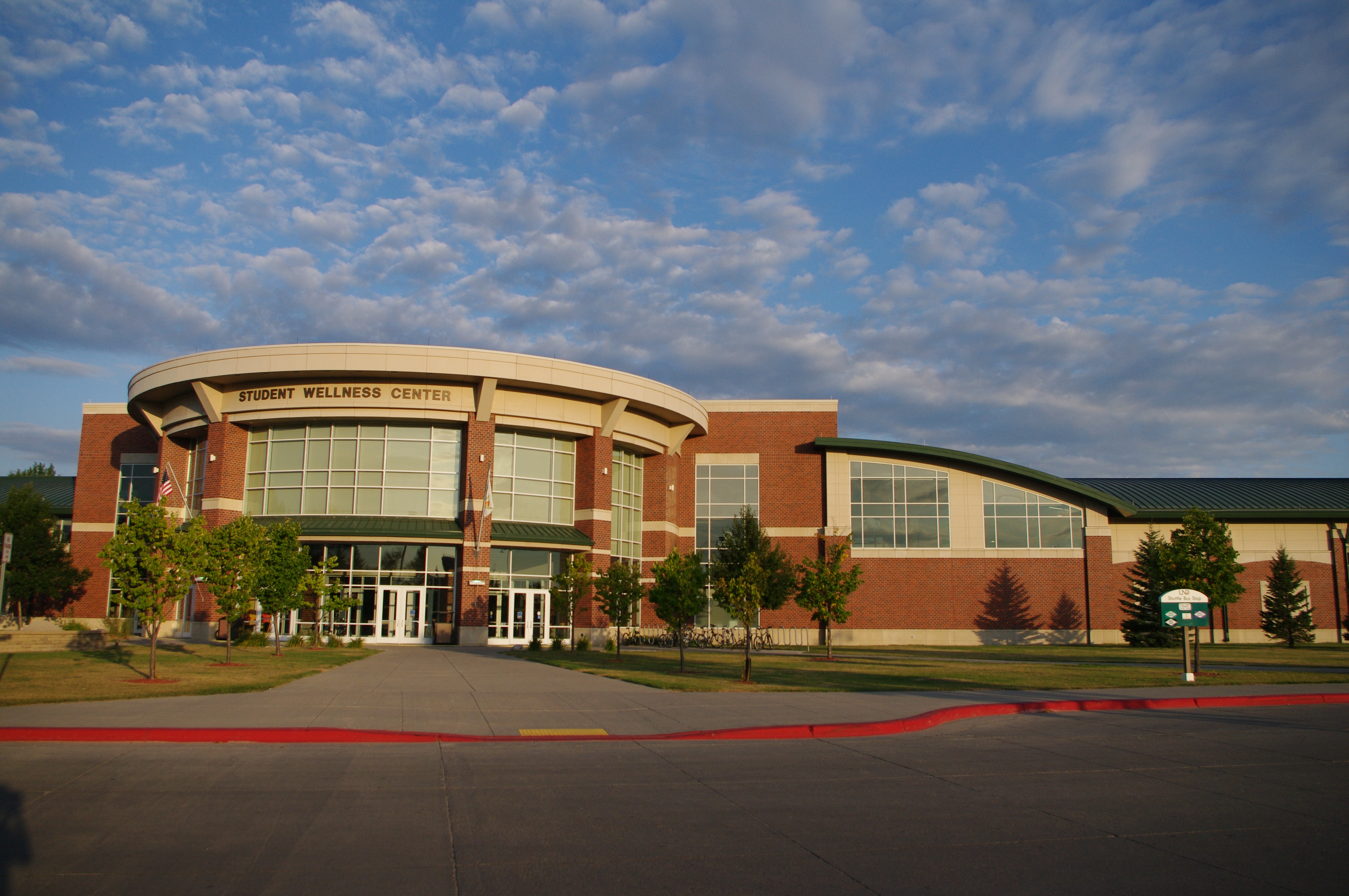 The Student Wellness Center at the University of North Dakota